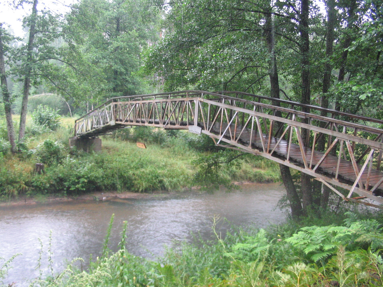 A bridge over Ula next to the spring Ulos Akis.